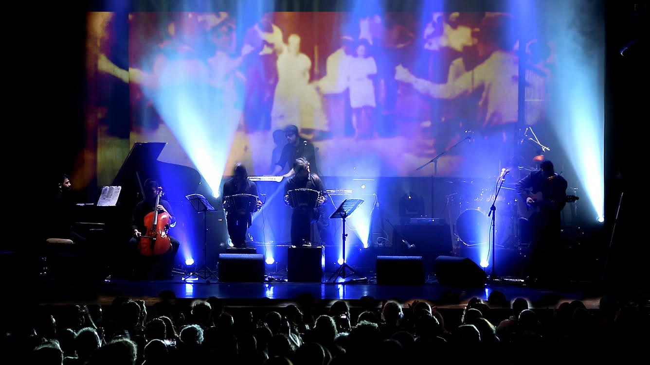 Tanghetto Live in Buenos Aires 2014